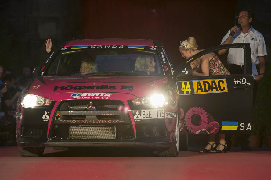 Rally Germany 2012 ADAC Rallye Deutschland,Ceremonial Start,Miriam Walfridsson,Mitsubishi Lancer Evolution X,Motorsport,Rally,Rallye,Rallye Deutschland,Ramona Karlsson,WRC